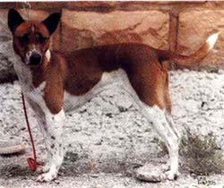 Author: Sabins (dogwiki)